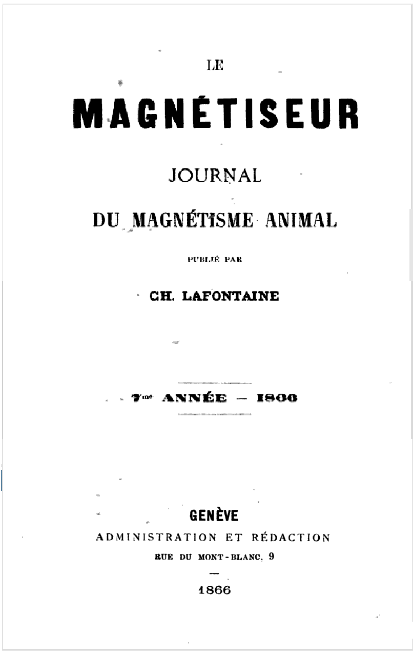 Jornal, O Magnetizador (Le Magnétiseur)